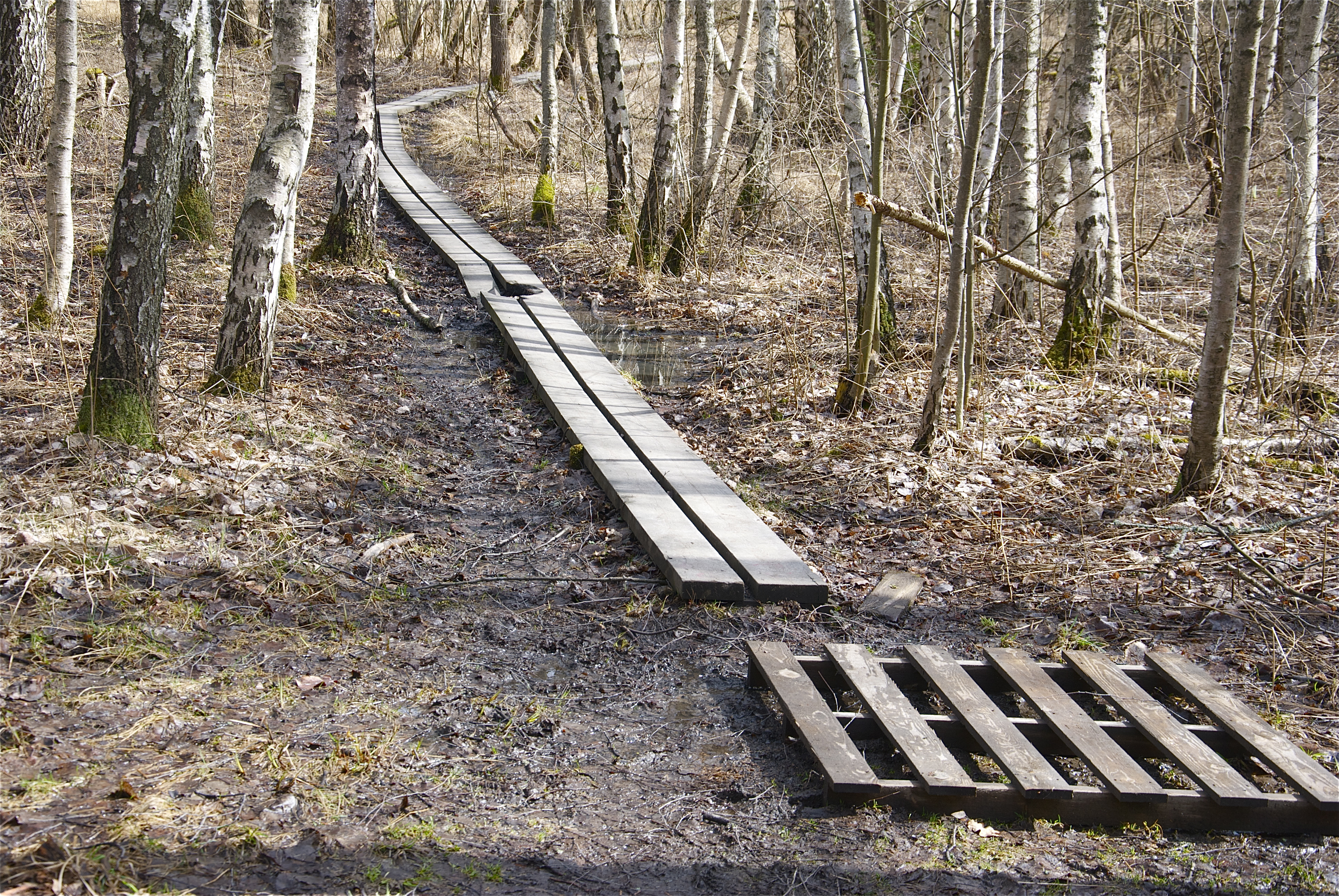 Rågsved friområde is a large public green area in Rågsved, Stockholm.